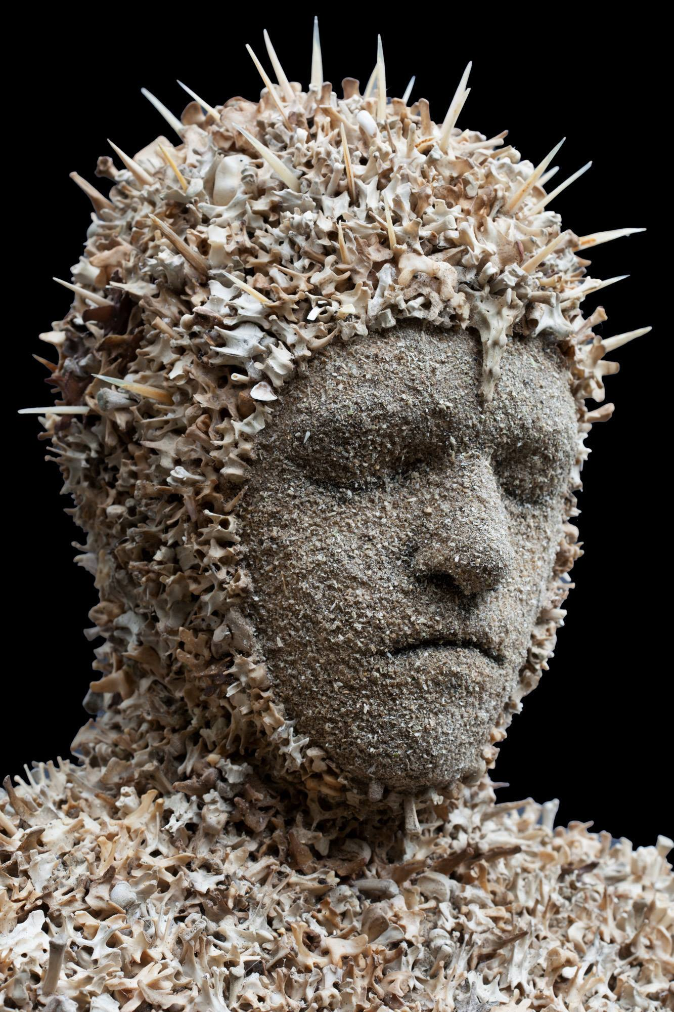 Kiribati Warrior - a life-size bust made from animal bones,fish spines and crushed bone by New Zealand artist, Bruce Mahalski (2013)